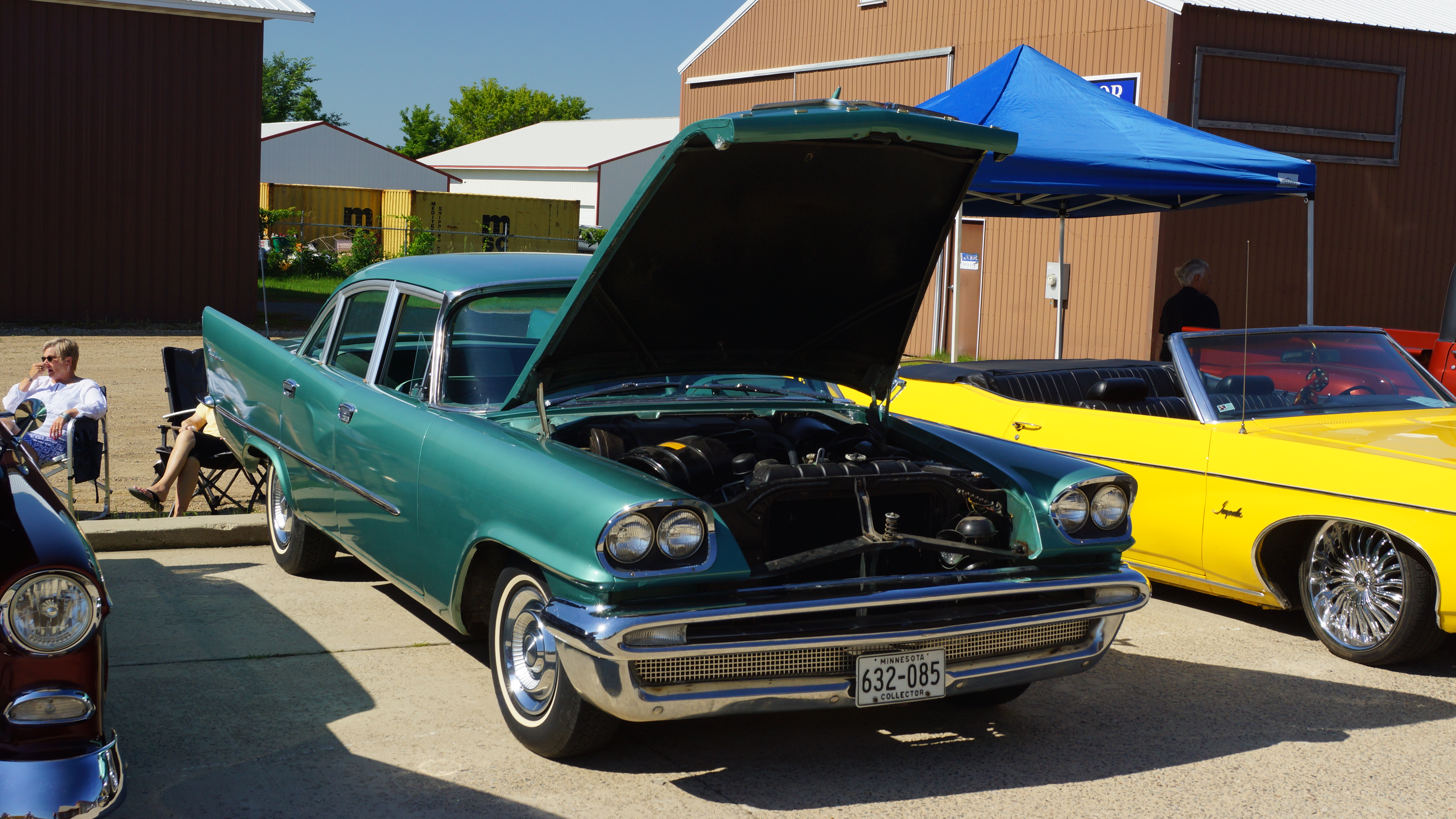 Classic Rides & Rods Classic Car Show 220 Poplar Lane Annandale, Minnesota July 8, 2018 *Click here for more car pictures by make Click here for Car Event pictures by year. Or here for my Car Crazy Tumblr site. Or on Twitter @DVS1mn.